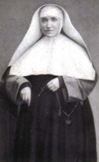 Blessed Giulia Valle (1847-1916), "Nemesia" in religion, Italian Roman Catholic nun, professed member of the Sisters of Charity of Saint Joan Antida Thouret; known for her careful attention to people's individual educational needs; beatified on 25 April 2004 by John Paul II.